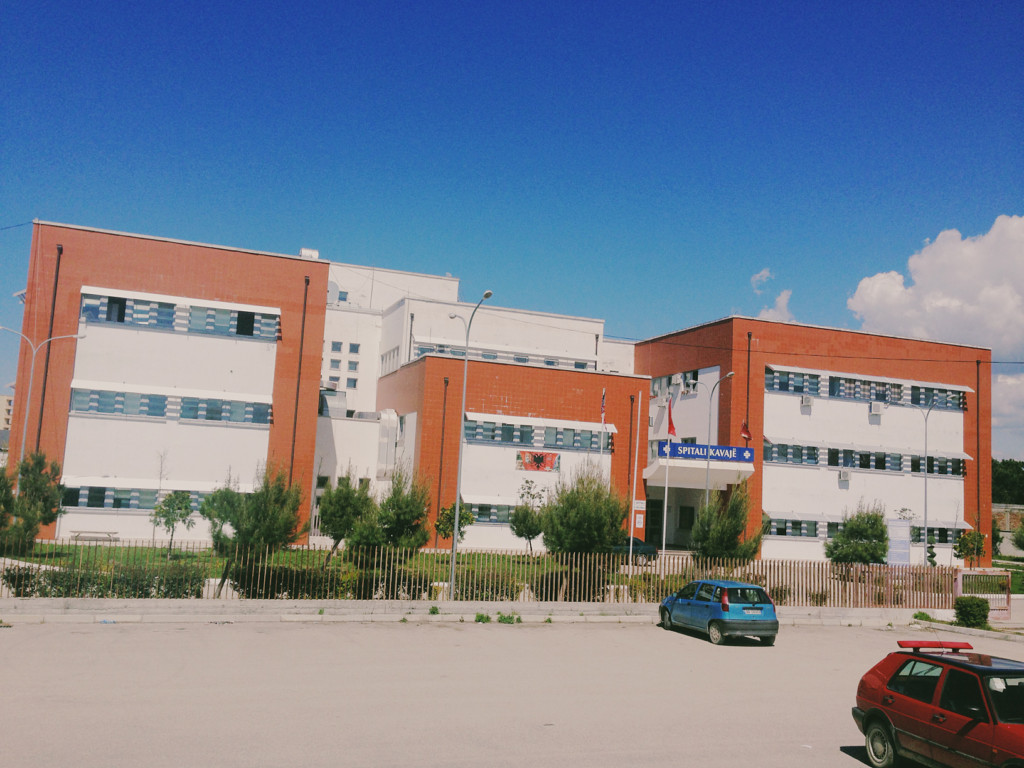 Spitali Kavajë